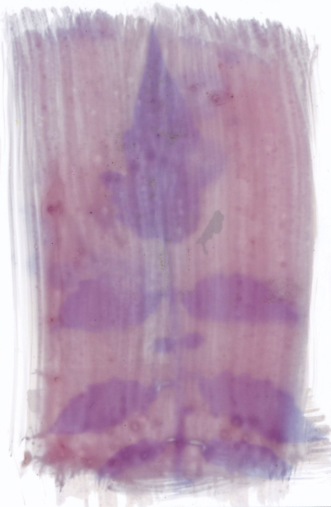 Anthotype